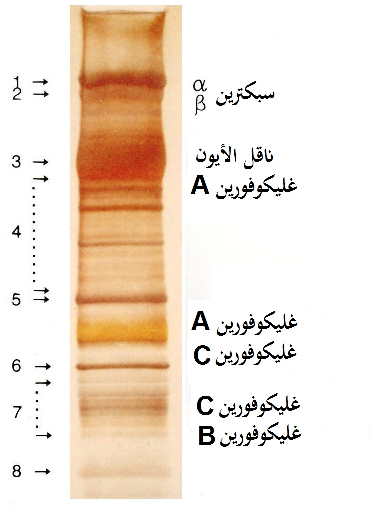 SDS PAGE of the major proteins found in the erythrocyte membrane